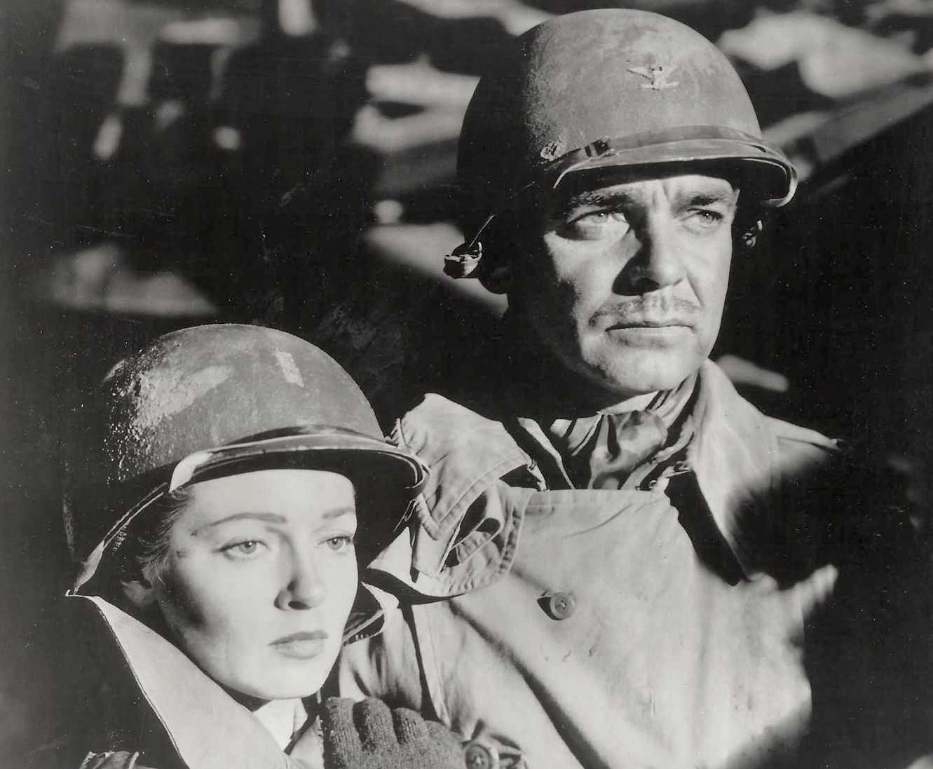 Lana Turner and Clark Cable in Homecoming 1948